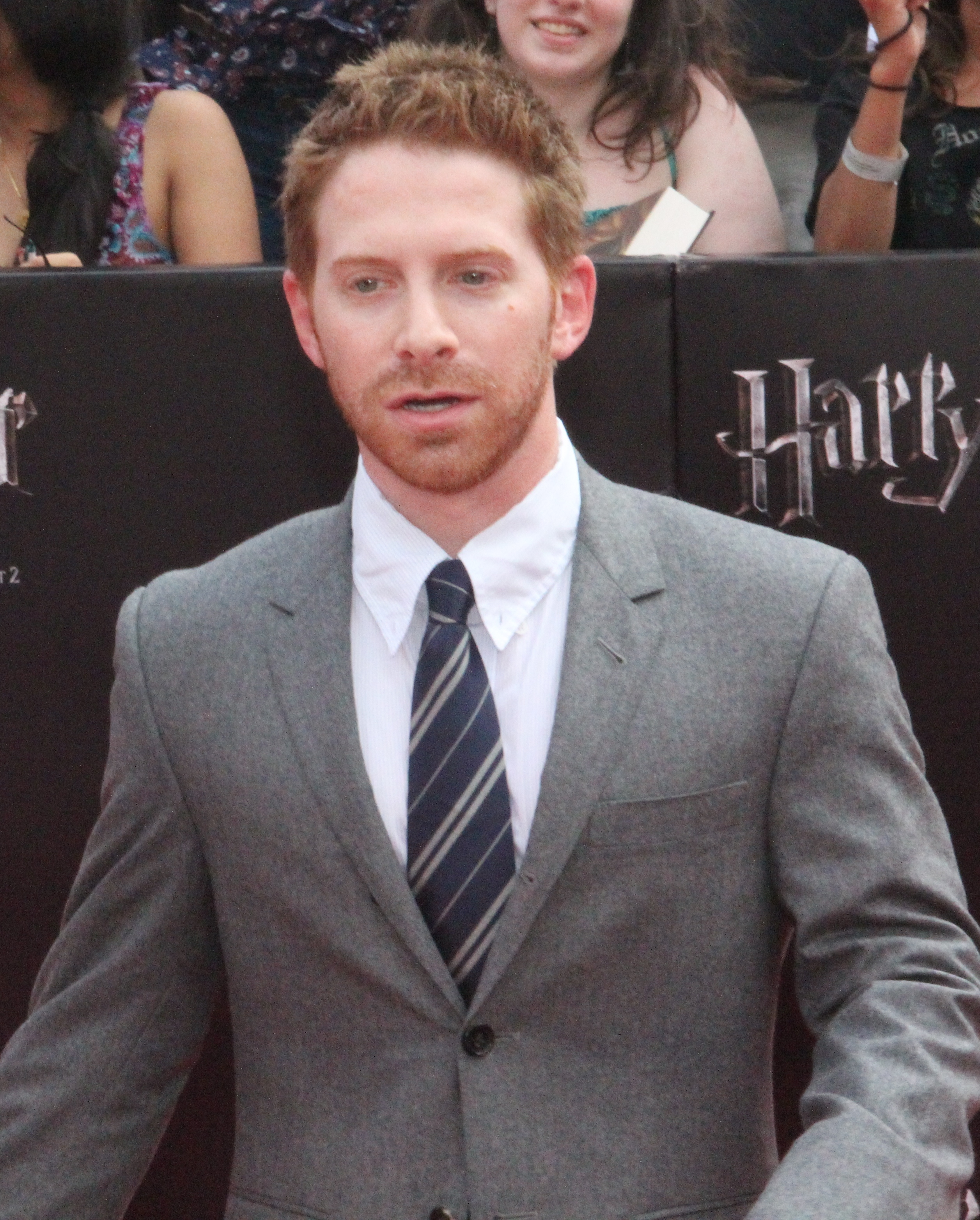 Seth Green at the film premiere of Harry Potter and The Deathly Hallows: Part 2 in Avery Fisher Hall-Lincoln Center, New York City in July 2011.